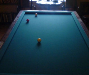 A pocketless carom billiards table.